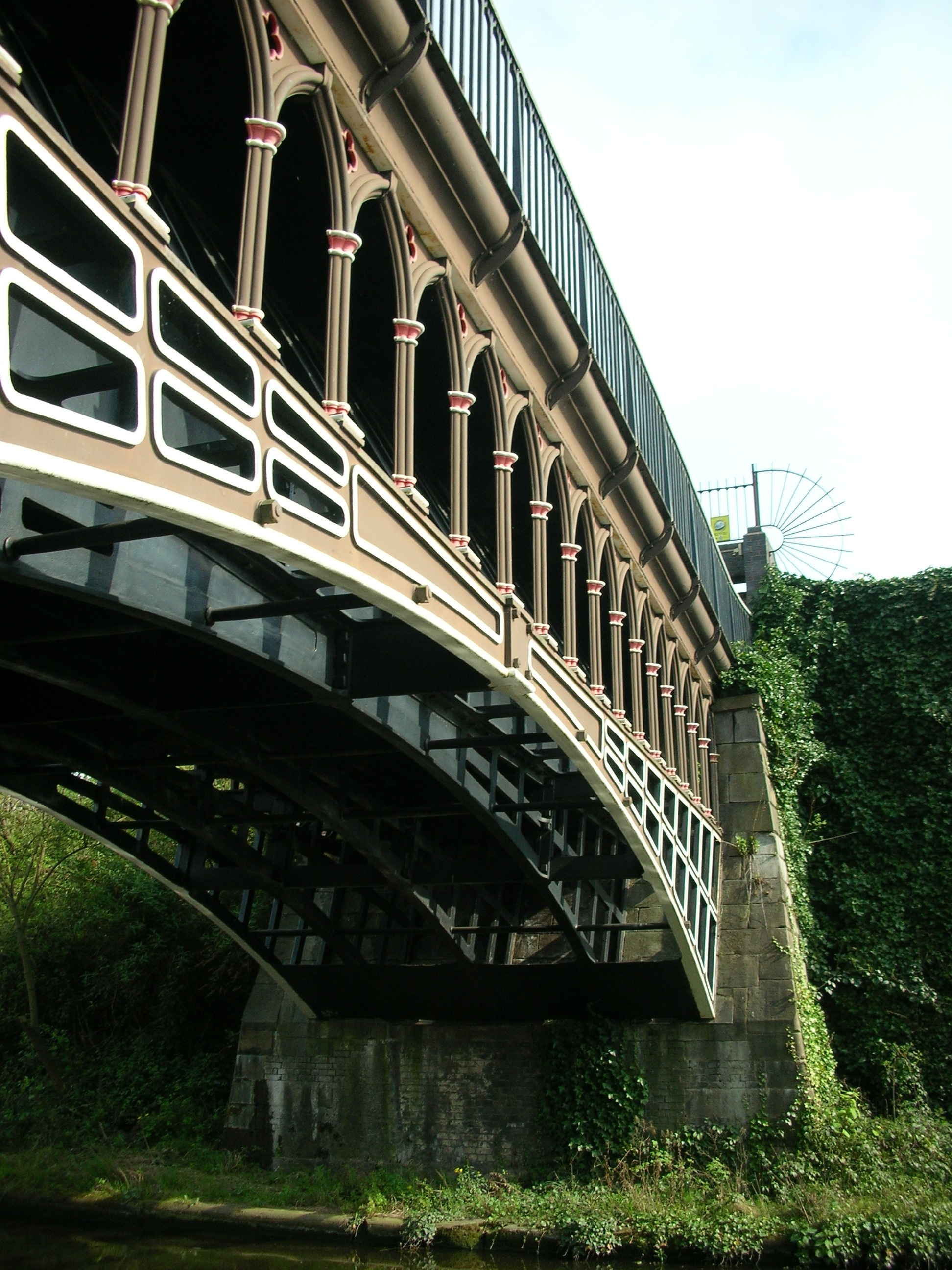 The Engine Arm Aqueduct, built in 1825 by Thomas Telford over his Birmingham New Main Line canal to take the older Engine Arm (or Birmingham Feeder) branch canal over it. Photographed by me 22 April 2007, Oosoom